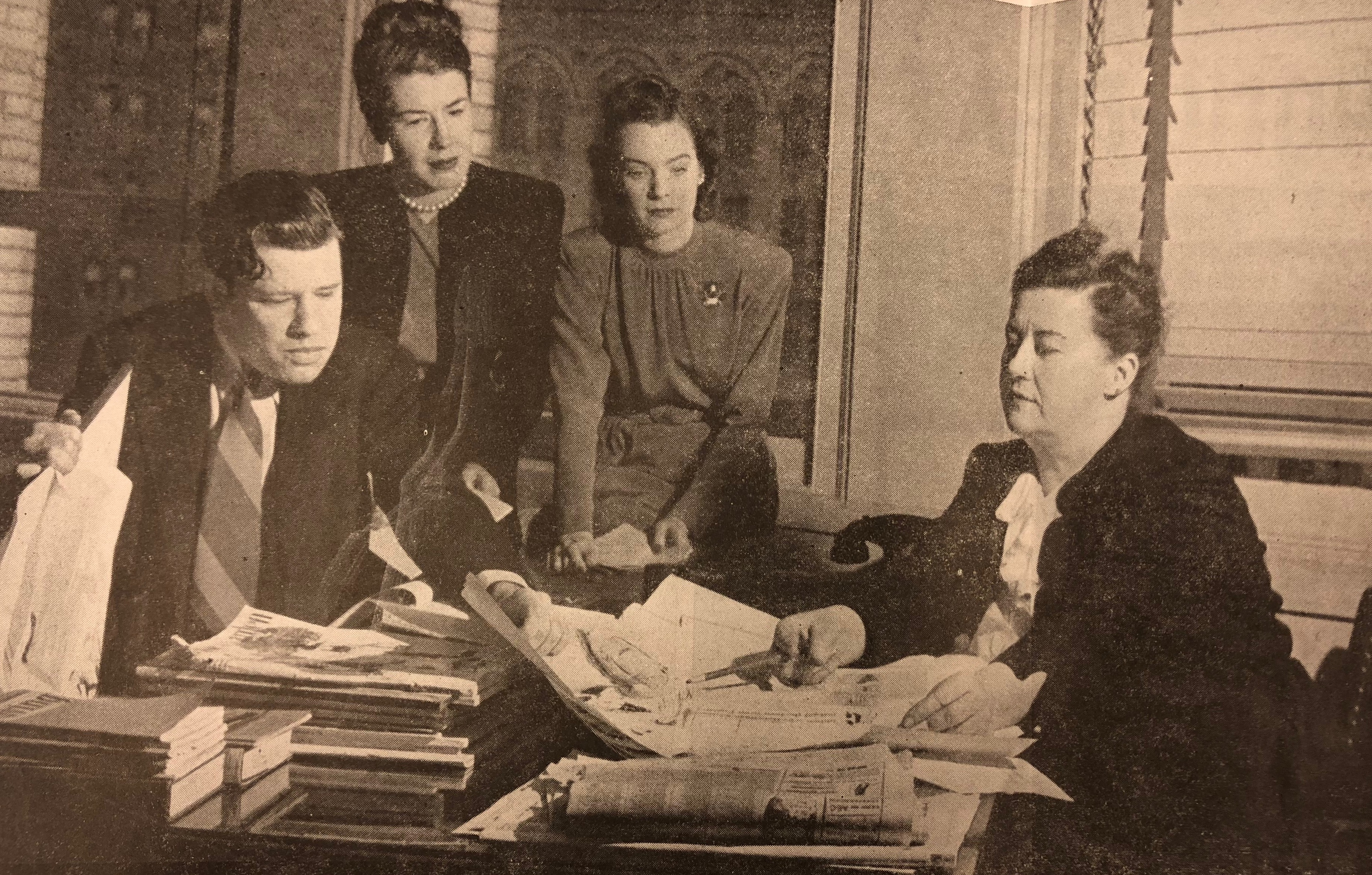 Bernice Fitz-Gibbon (right) created enticing advertisements for a business called Gimbels.